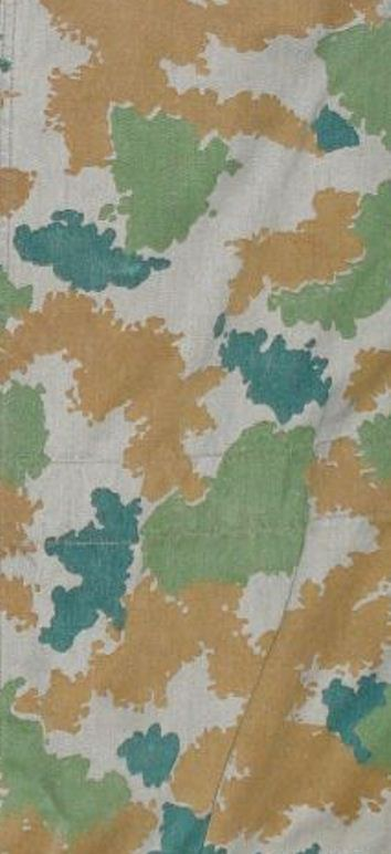 Flächentarn ("Blumentarn") pattern